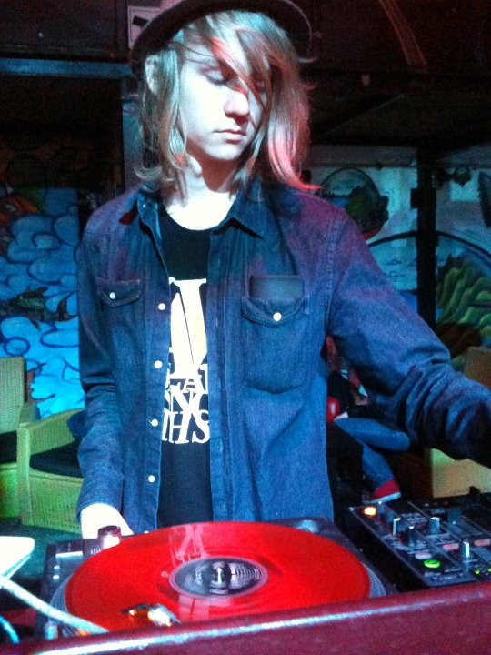 Magnus A. Hoiberg, aka Cashmere Cat